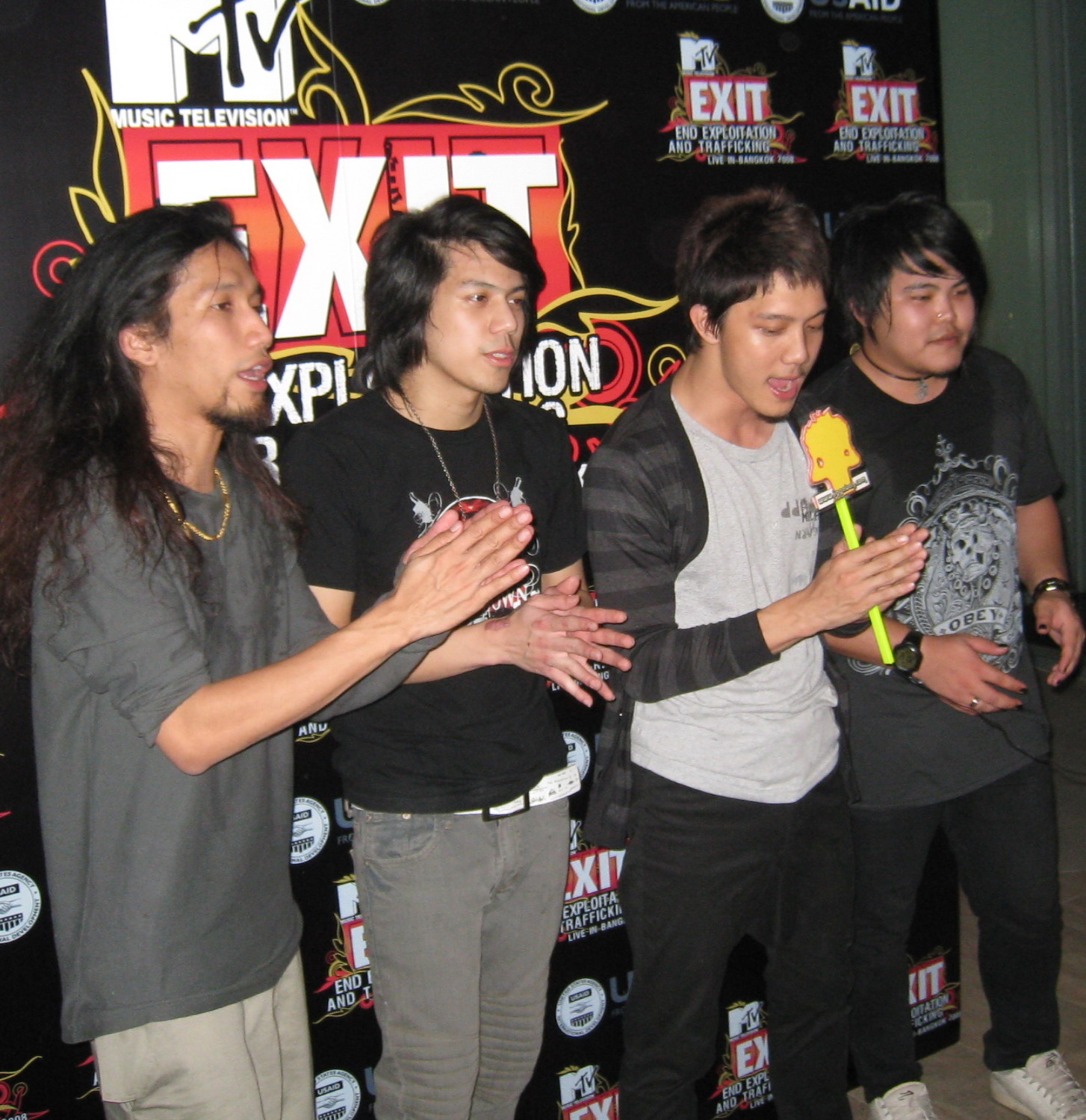 Potato at backstage of MTV Exit Live in Bangkok.